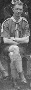 Jan Schaap (Third Gilwell Wood Badge in the Netherlands)